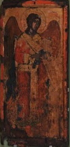 Archangel Gabriel Icon from Saint George Church in Dolna Nushka Dafnoudi, Serres Church Museum